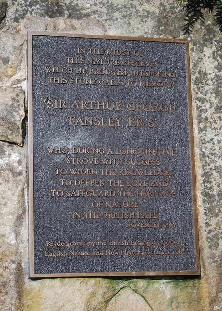 The Tansley Stone, Kingley Vale. The inscription on Sir Arthur Tansley's memorial.